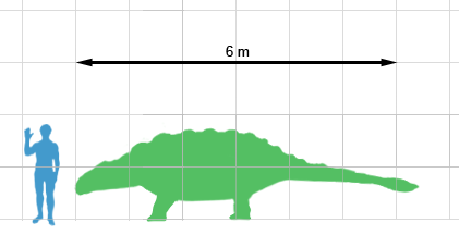 Size of an Ankylosaurus (specimen NMC 8880) compared with a human. Based on measurements in Carpenter 2004.